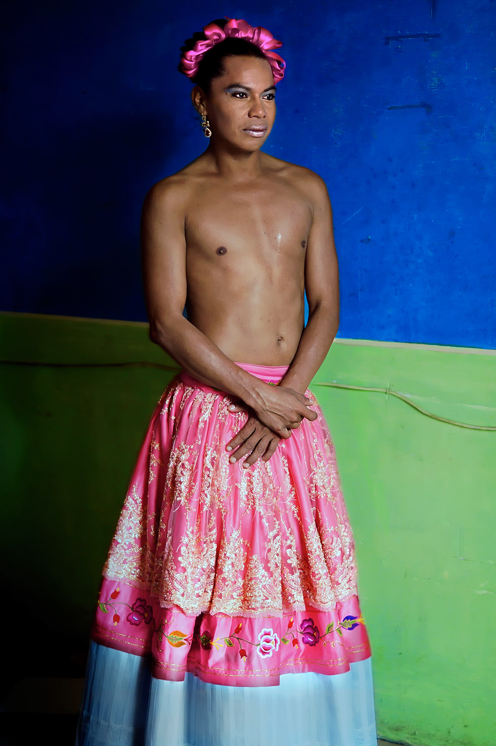 Zapotec Muxhe, Muxe, Lukas Avendaño. Contemporary Performance artist from Mexico.